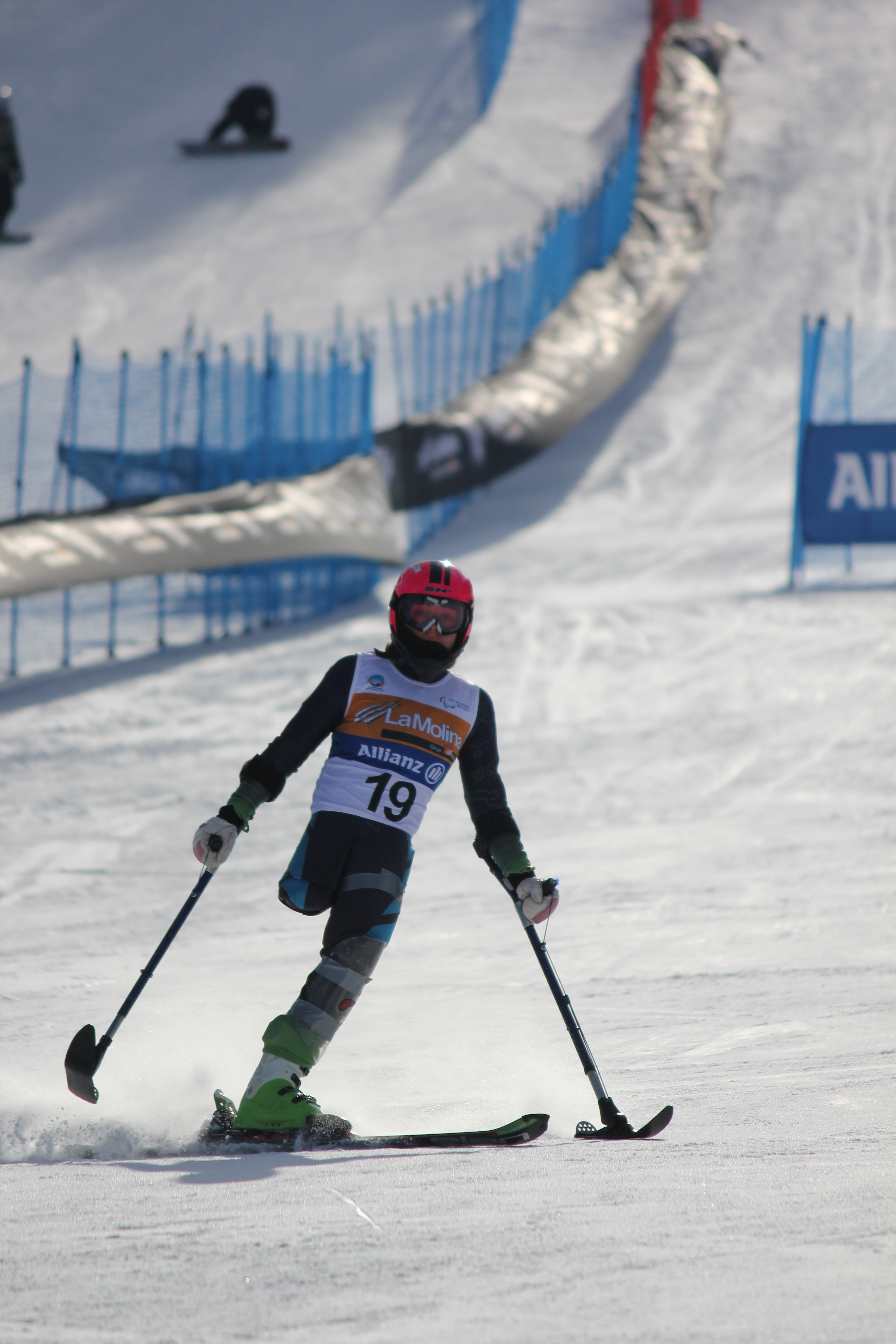 Úrsula Pueyo of Spain. 2013 IPC Alpine World Championships at La Molina in Spain. Day 3 of competition. Slalom final.